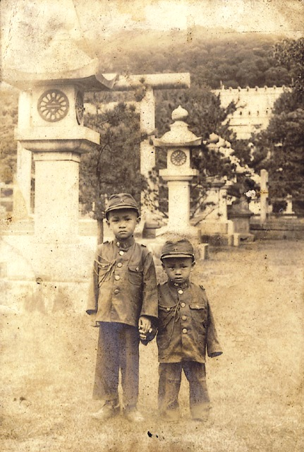 built in 1901